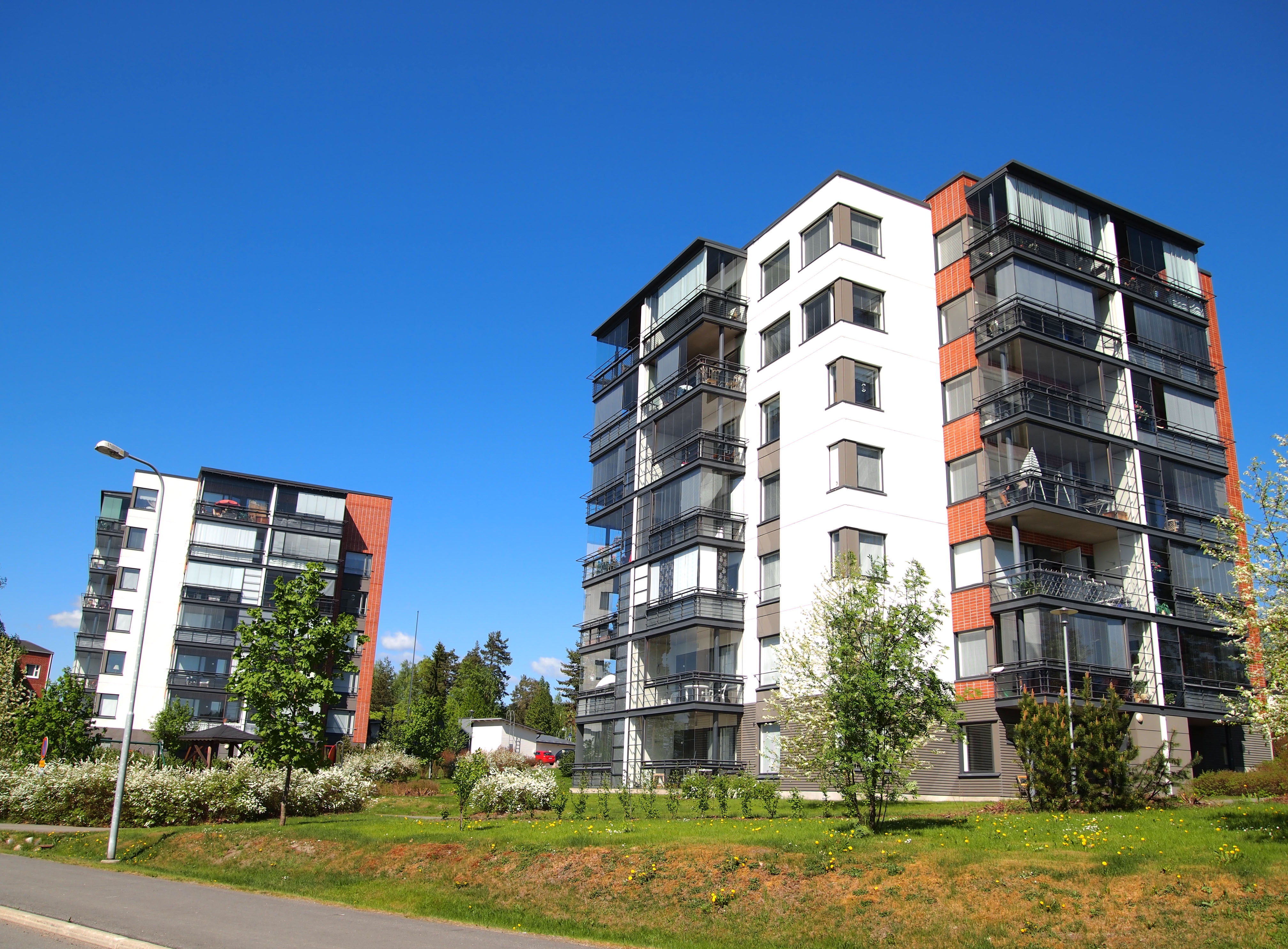 Buildings in Palokka district, Jyväskylä. This photograph was taken with an Olympus E-PL1